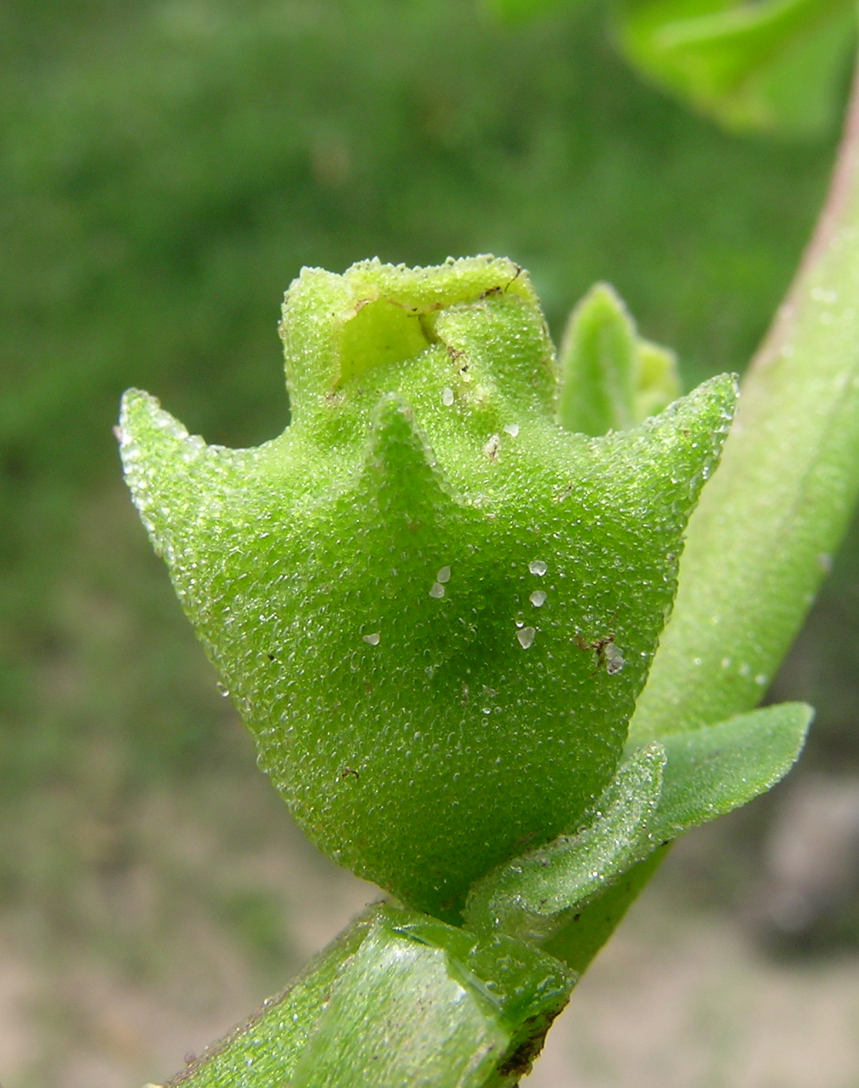 Native, cool season, annual or short-lived perennial, prostrate, spreading herb. Leaves are rhombic to lanceolate, semi-succulent and to 10 cm long. Flowers are small, 4-5-lobed and yellowish. Fruit are woody and winged. Flowering is from late winter to early summer. Mostly grows along margins of salt marshes and in protected sites along the coast, but is found in all parts of New South Wales and across Australia.